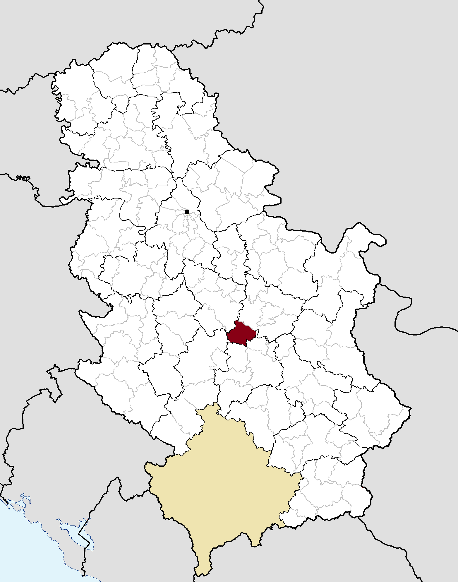 Municipal location in Serbia